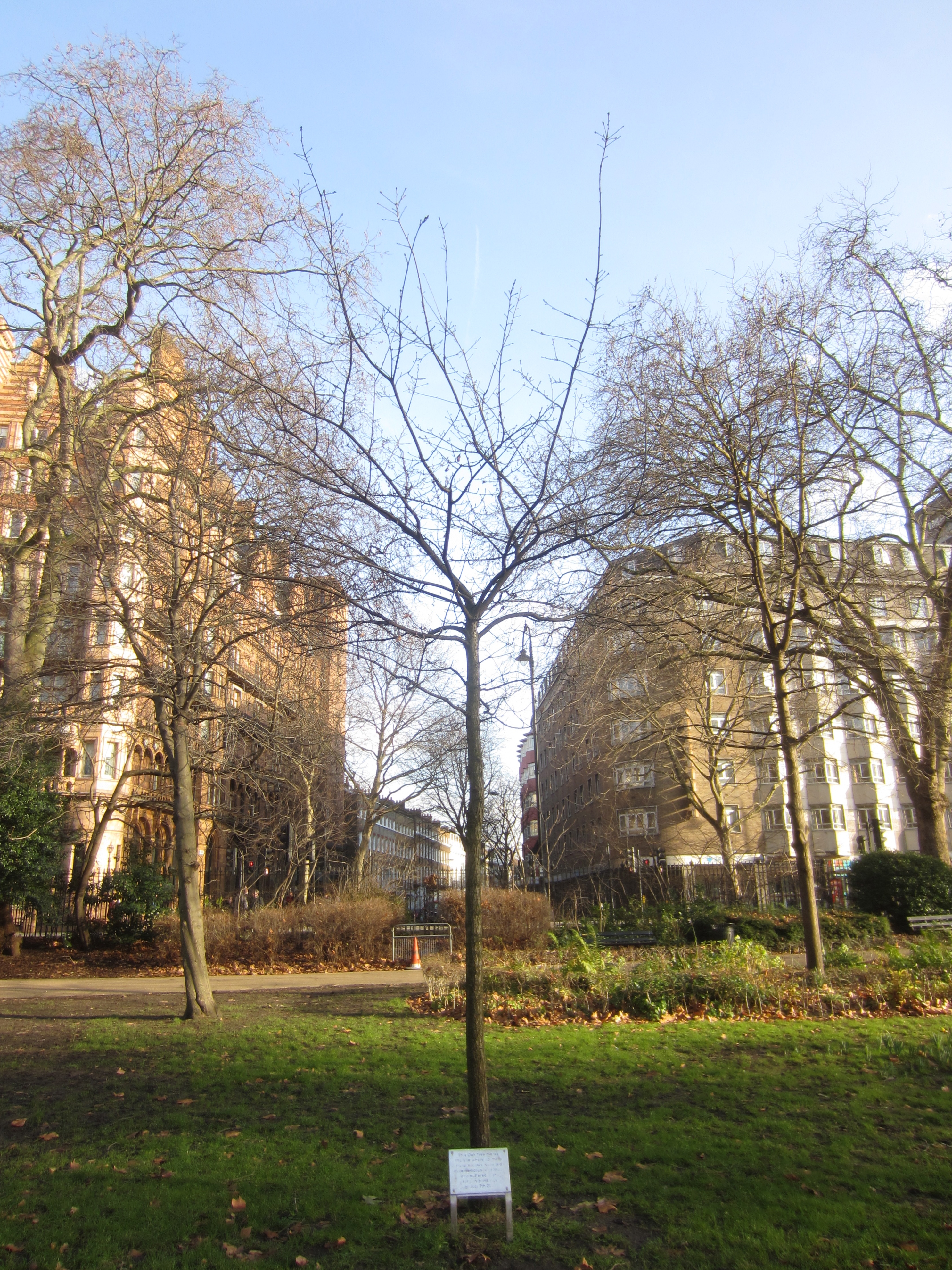 This oak tree marks the site in Russell Square where so many floral tributes were laid in remembrance of those who died and suffered in the London bombings of July 7th 2005.